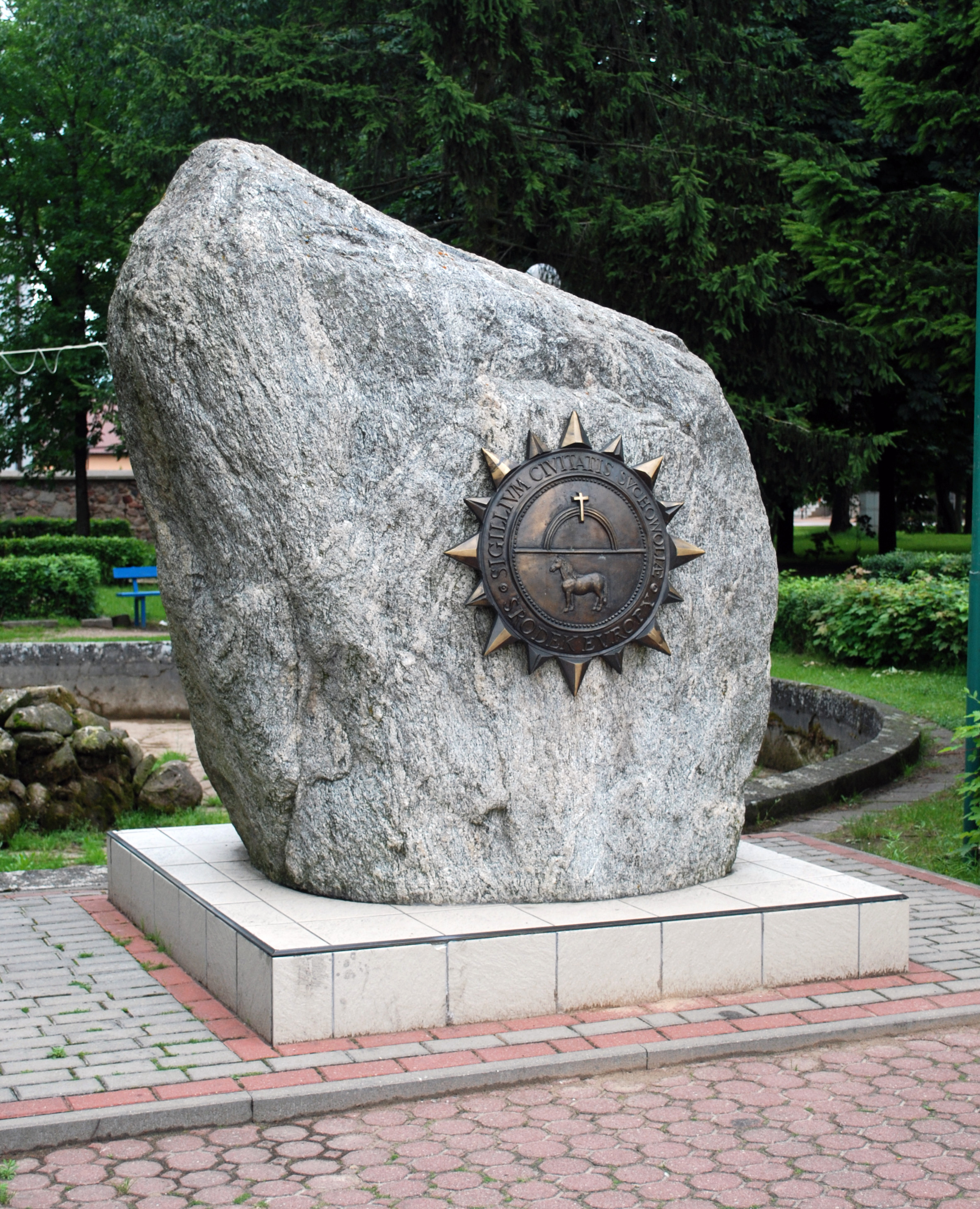 This photo from Podlaskie Voievodeship was taken during Polish Wikiexpedition 2009 set up by Wikimedia Polska Association. The making of this document was supported by Wikimedia Polska. Kamień Papieski w Suchowoli